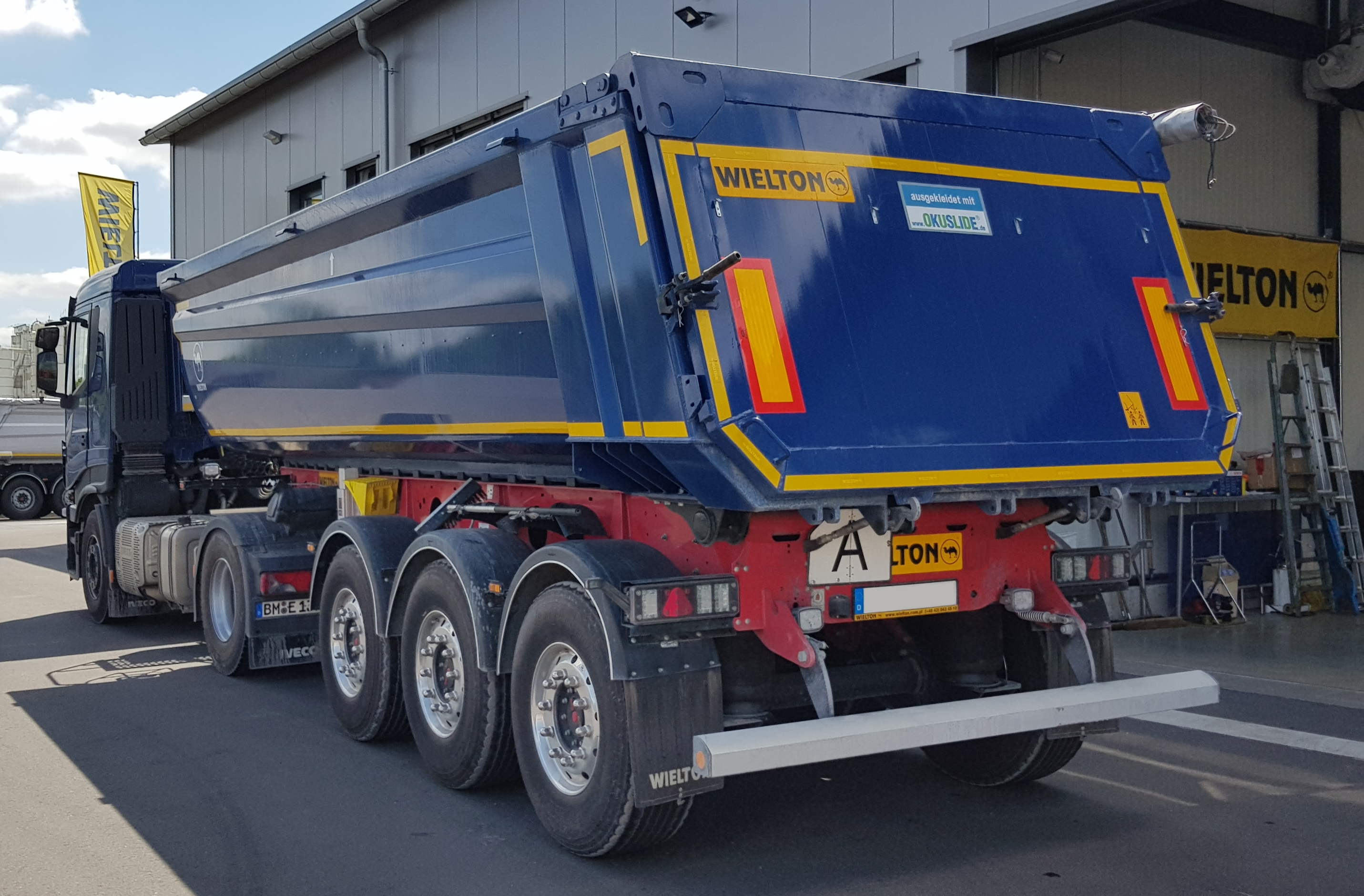 Semi-trailer with a tipper construction by the Polish producer Wielton, linked to a tractor by the Italian producer Iveco.